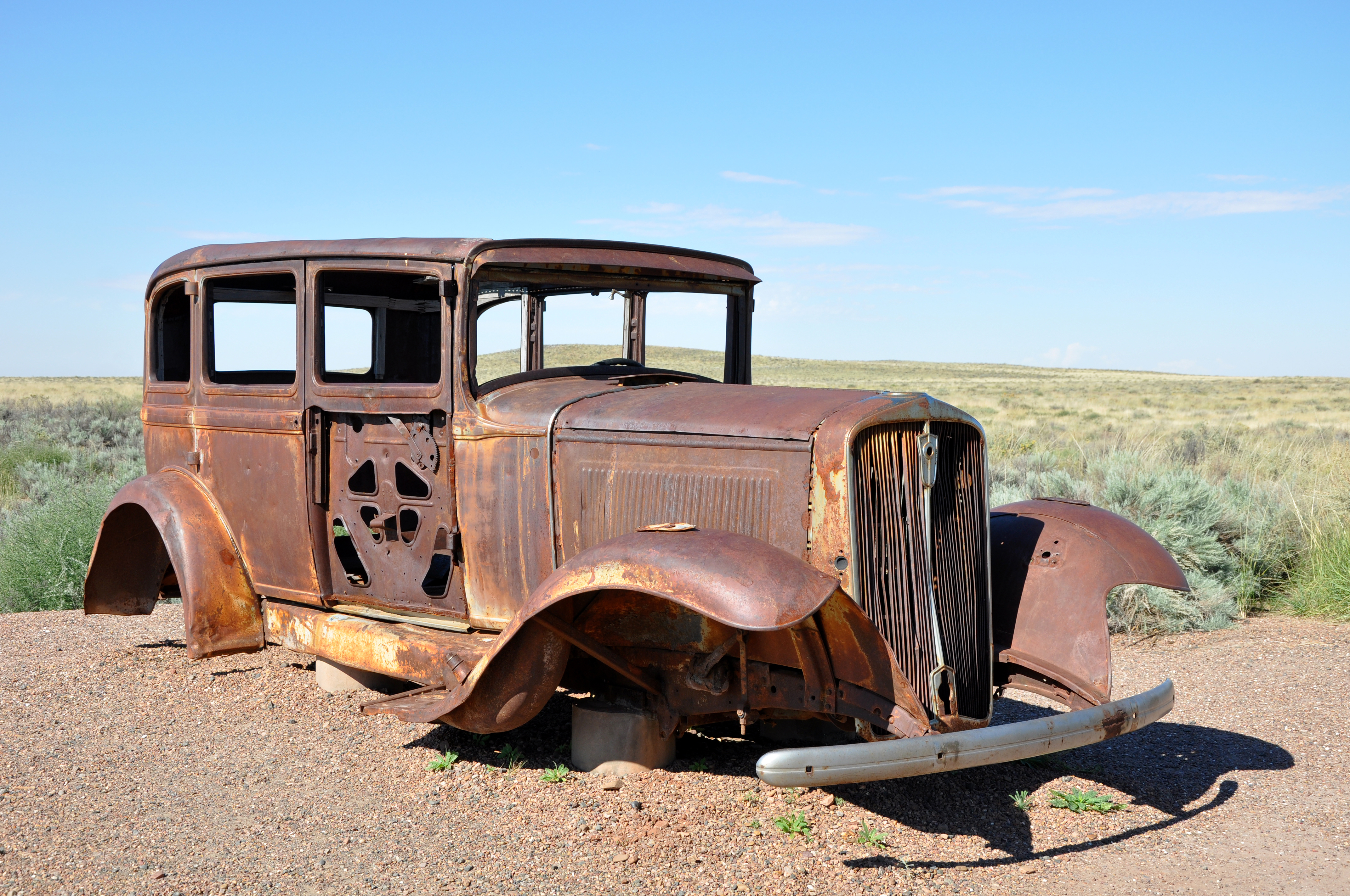 1931 Studebaker sedan commemorating U.S. Route 66, a decommissioned transcontinental highway, where it passed through Petrified Forest National Park in northeastern Arizona, United States